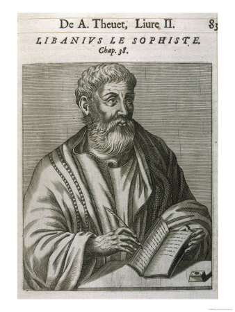 18th cent. French Woodcut of Libanius the Orator.